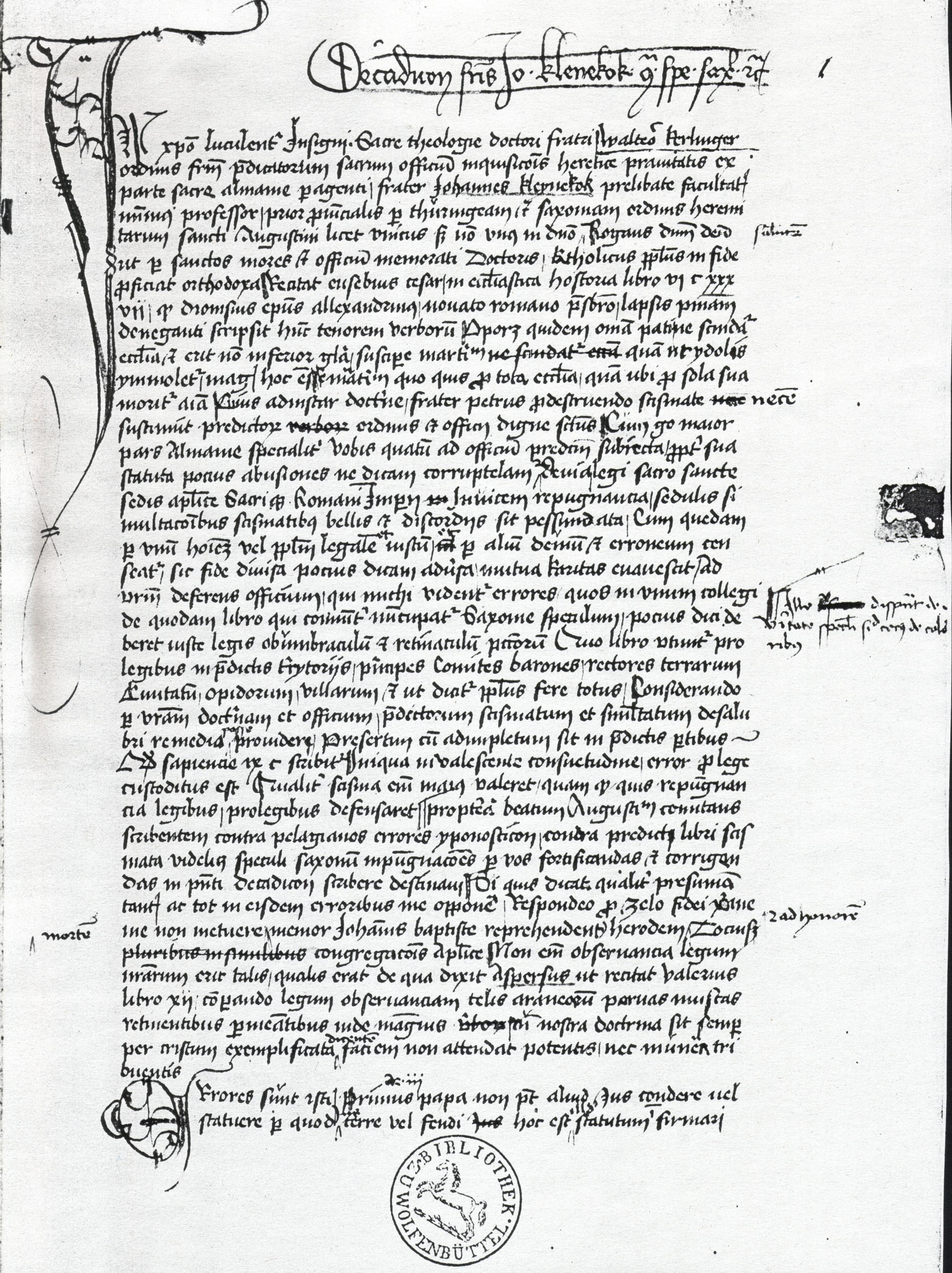 Handwritten copy of the 1st page of Johannes Klenkok's Decadicon